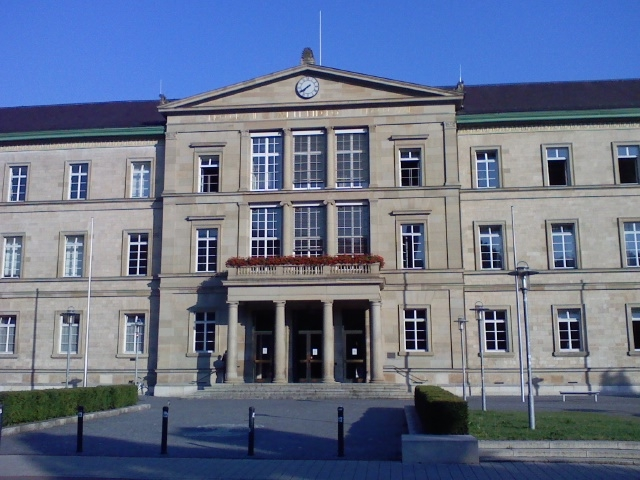 Front view of Neue Aula in Tuebingen